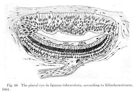 Parietal eye of Iguana